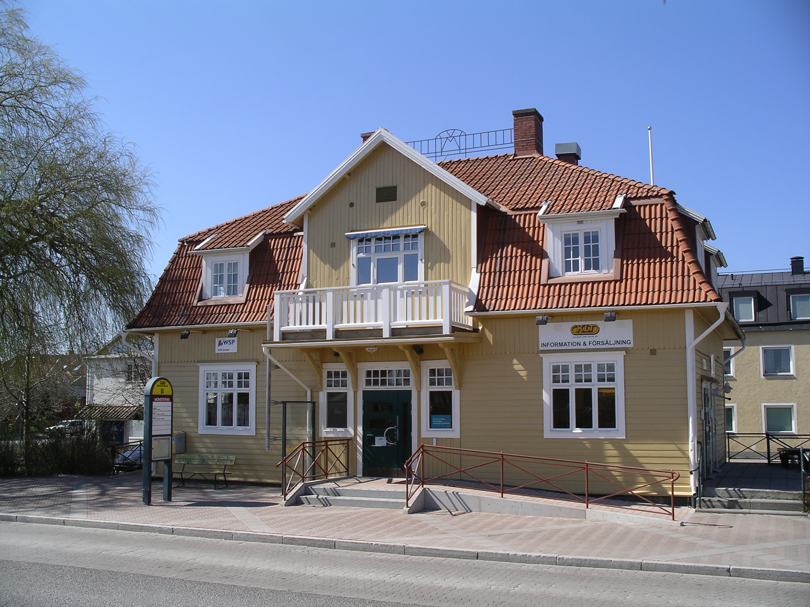 Railway station Mönsterås in Sweden